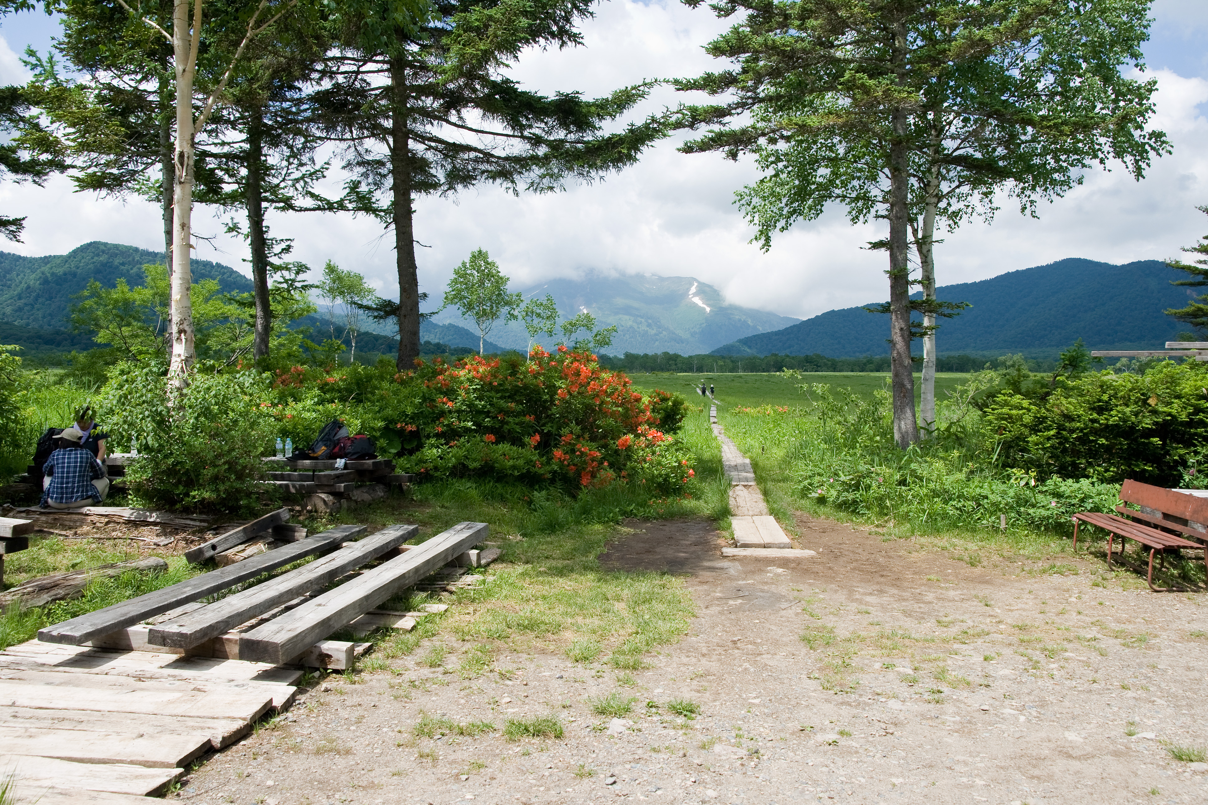 Ozegahara, Hinoemata Vill., Fukushima Pref., Japan